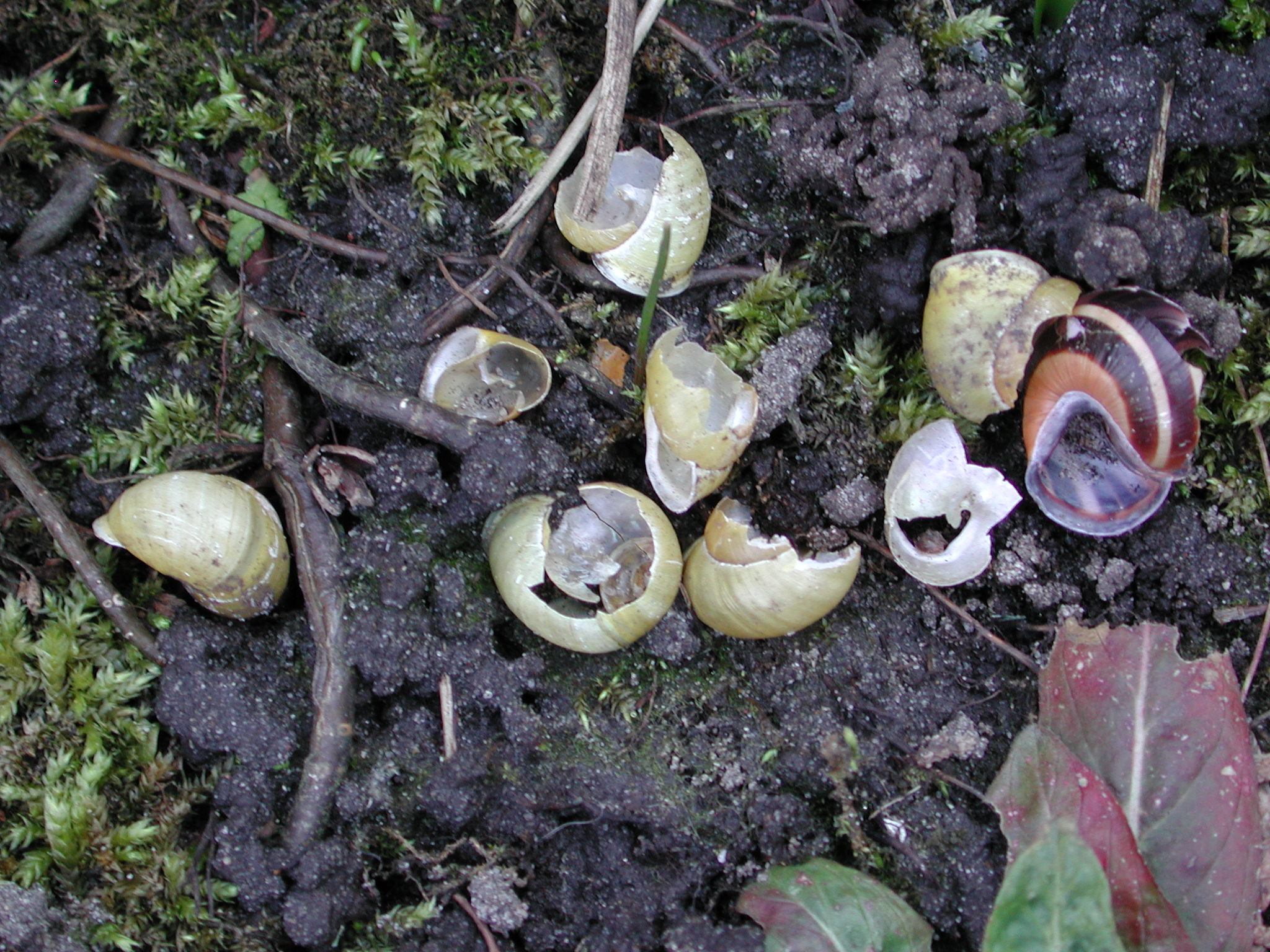 Cepaea hortensis (yellow specimens) and Cepaea nemoralis (banded specimen) eaten by blackbird in my garden.